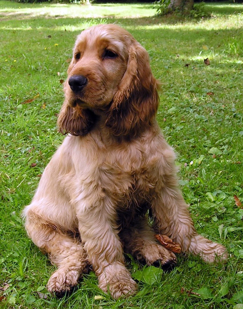 Photograph of an english cocker spaniel pup (3 months old).